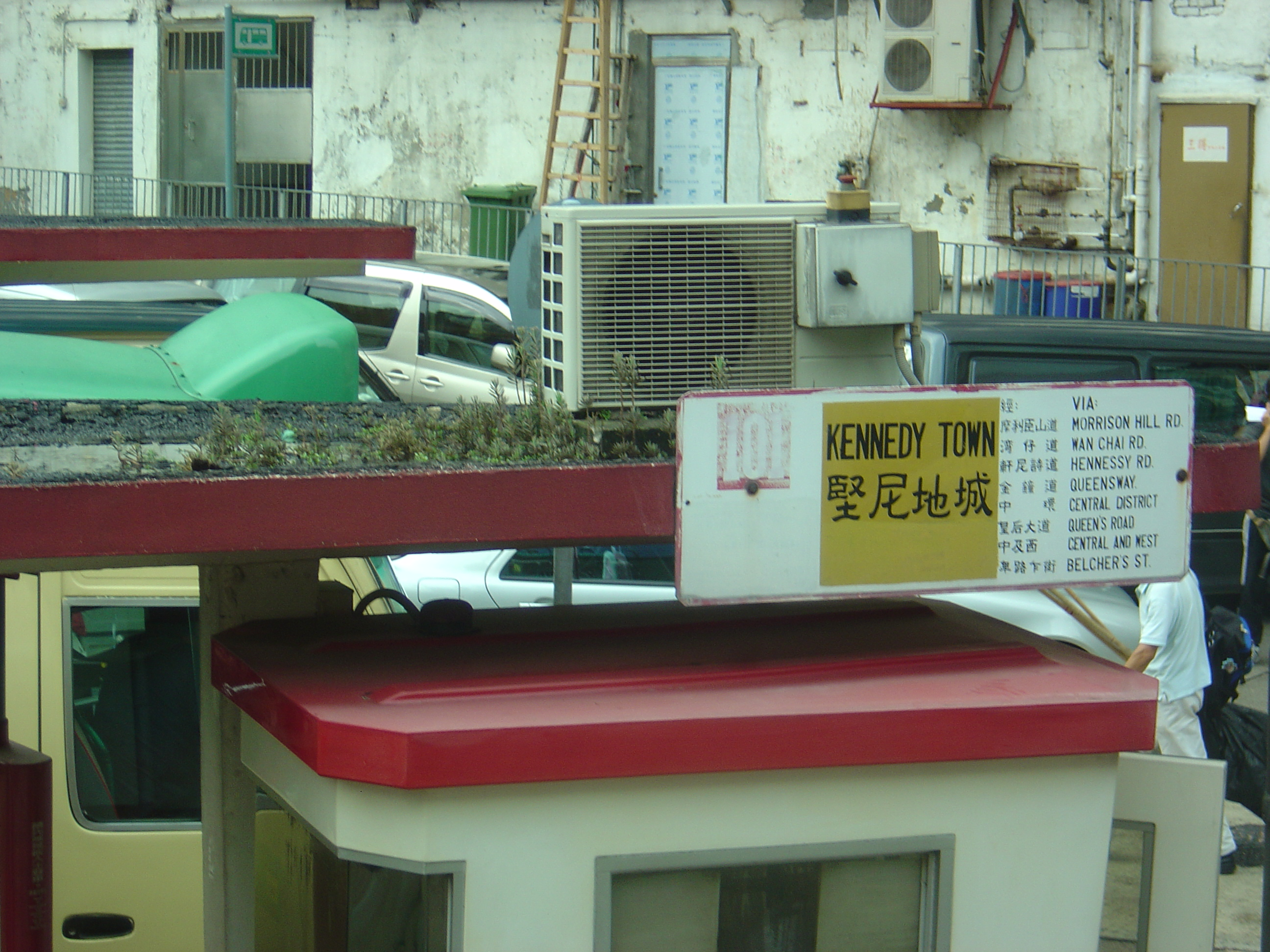 KMB Route 101 sign in Yue Man Square bus terminus, Kwun Tong, Hong Kong